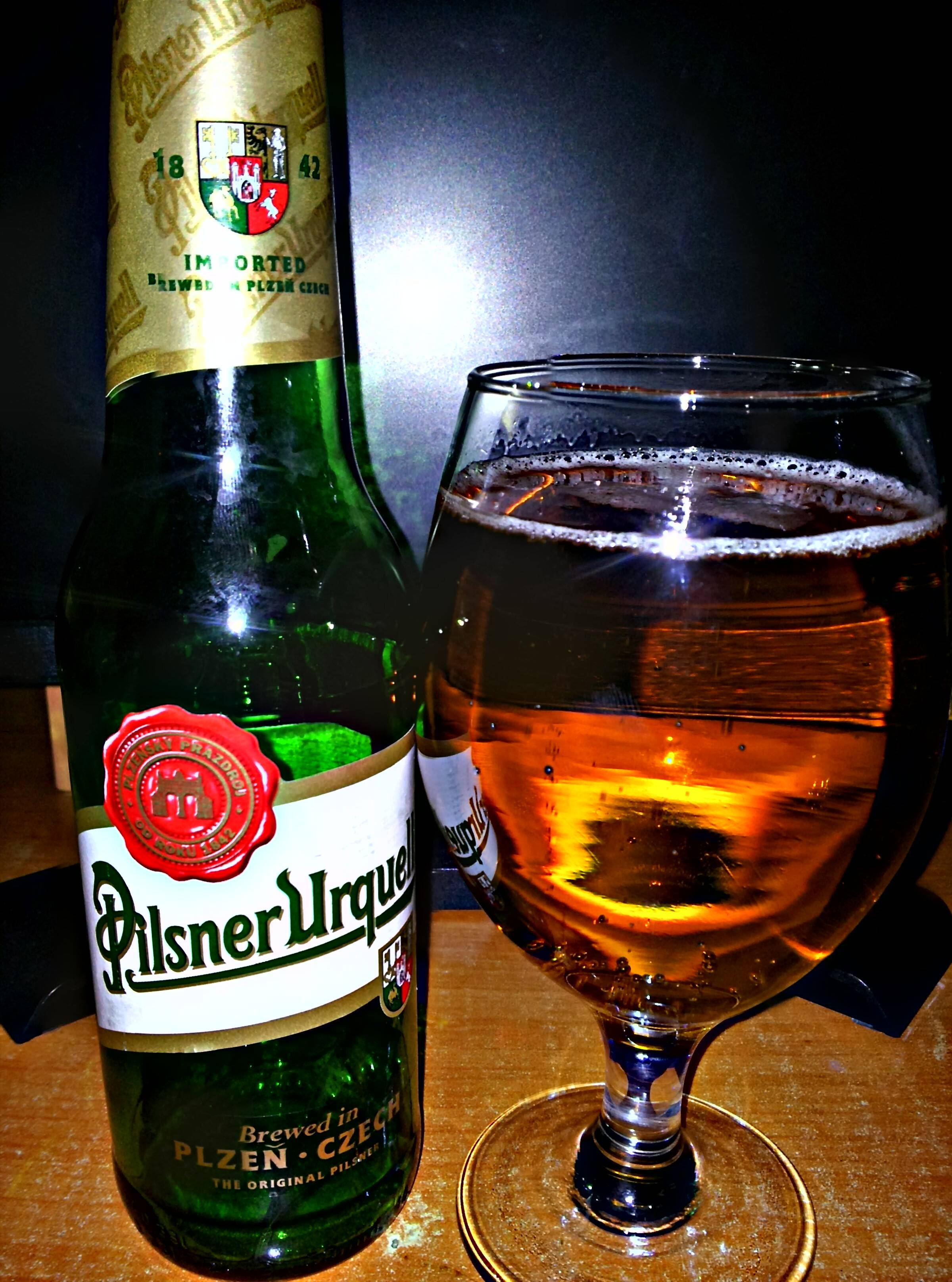 Pilsner Uruqell in a Glass with the bottle standing aside.